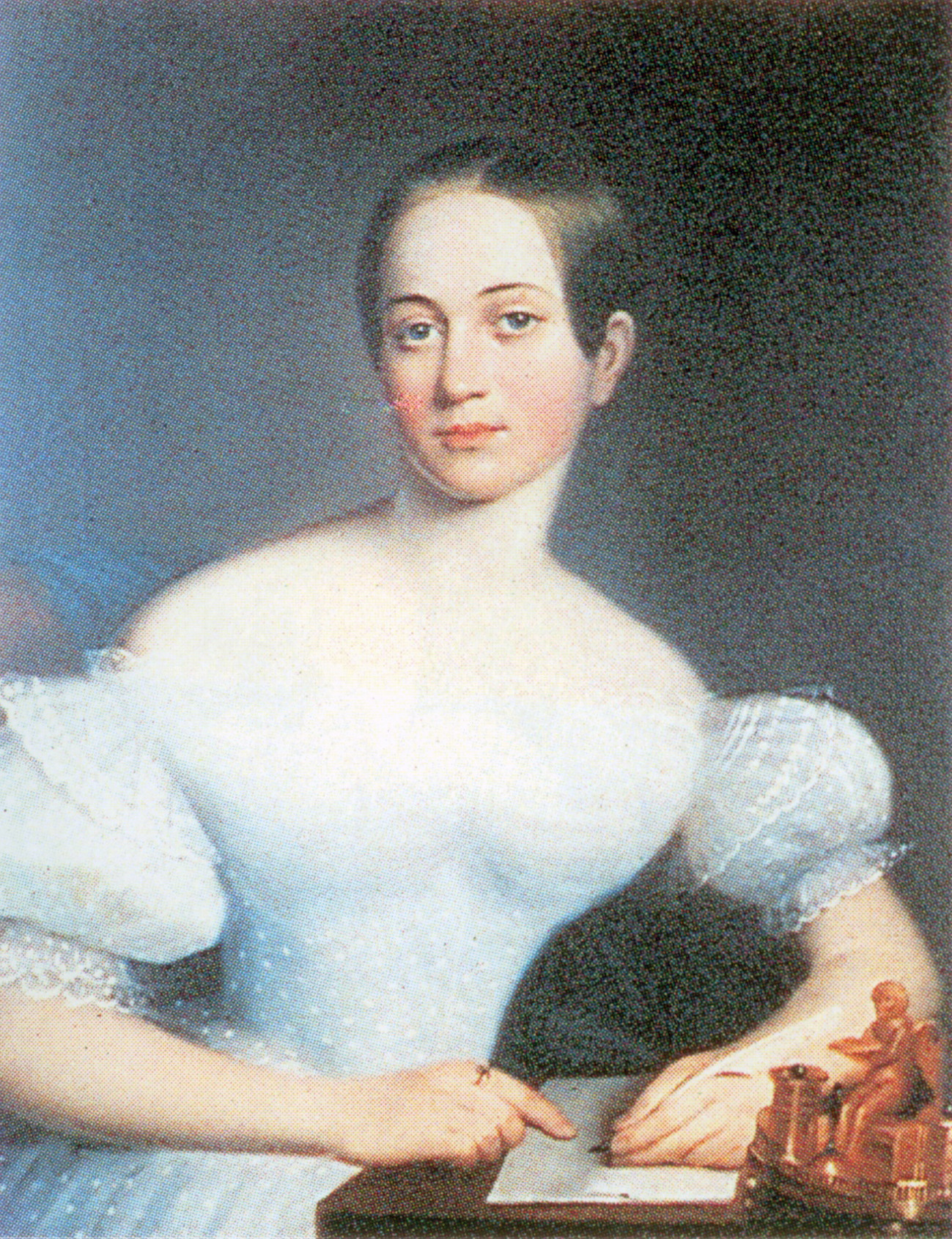 Portrait of Emilia Karlovna Musina-Pushkina (1810-1846)